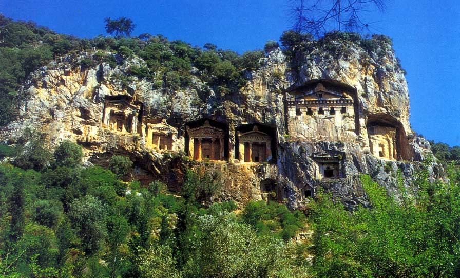 Dalyan - Caunos